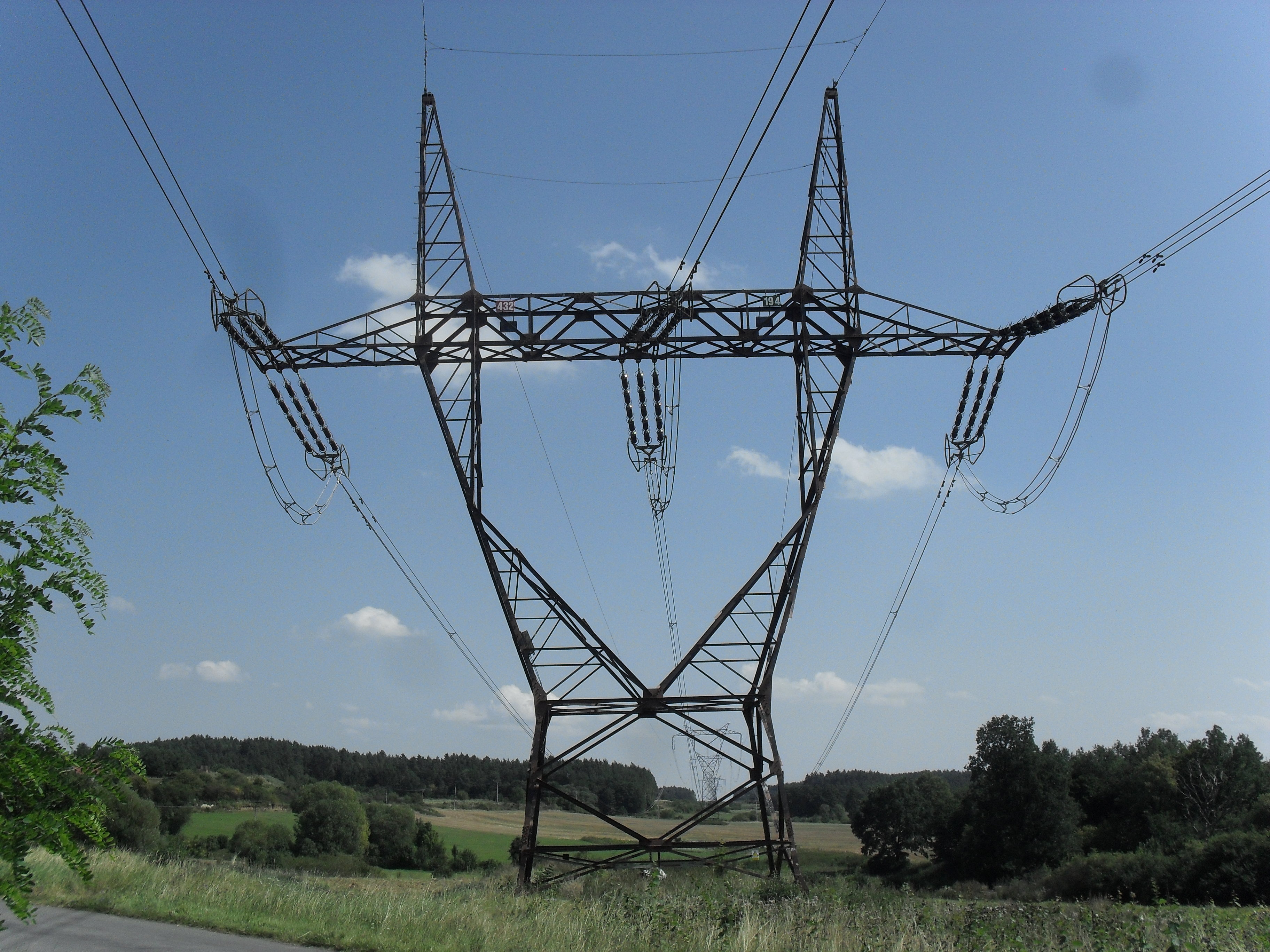 Low dead-end pylon of the Přeštice–Kočín 400 kV power line (V432) at Čečelovice